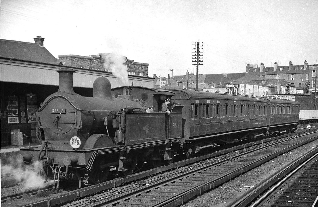 Auto-train for Allhallows-on-Sea at Gravesend Central station. View NE, towards Strood etc. and Allhallows-on-Sea/Grain: ex-SE&C North Kent lines. The locomotive, ex-SE&C Wainwright H class 0-4-4T No. 31518 (built 7/1909, withdrawn 1/64), had been motor-fitted in 3/52 and was here pushing - with the driver in the front of the leading coach.